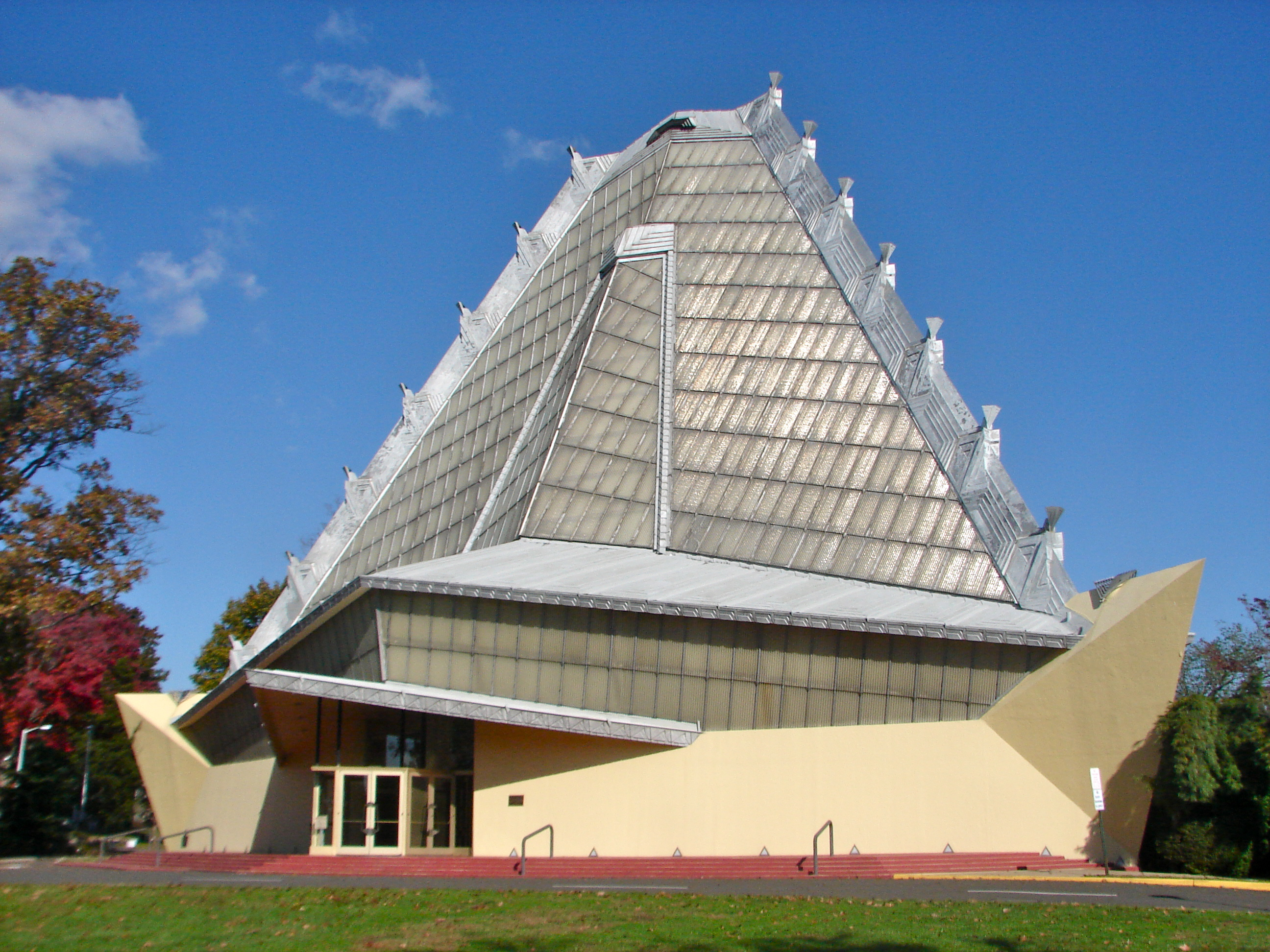 Exterior of Beth Sholom Synagogue, designed by Frank Lloyd Wright.